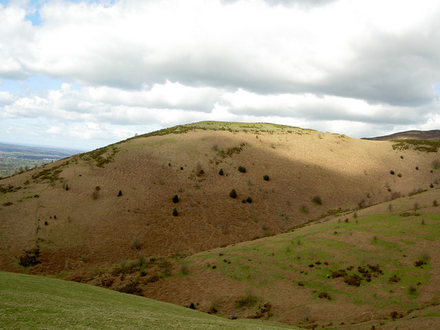 View of Moel y Gaer Moel y Gaer is one of many iron-age hillforts in the area, including nearby Foel Fenlli and Moel Arthur.